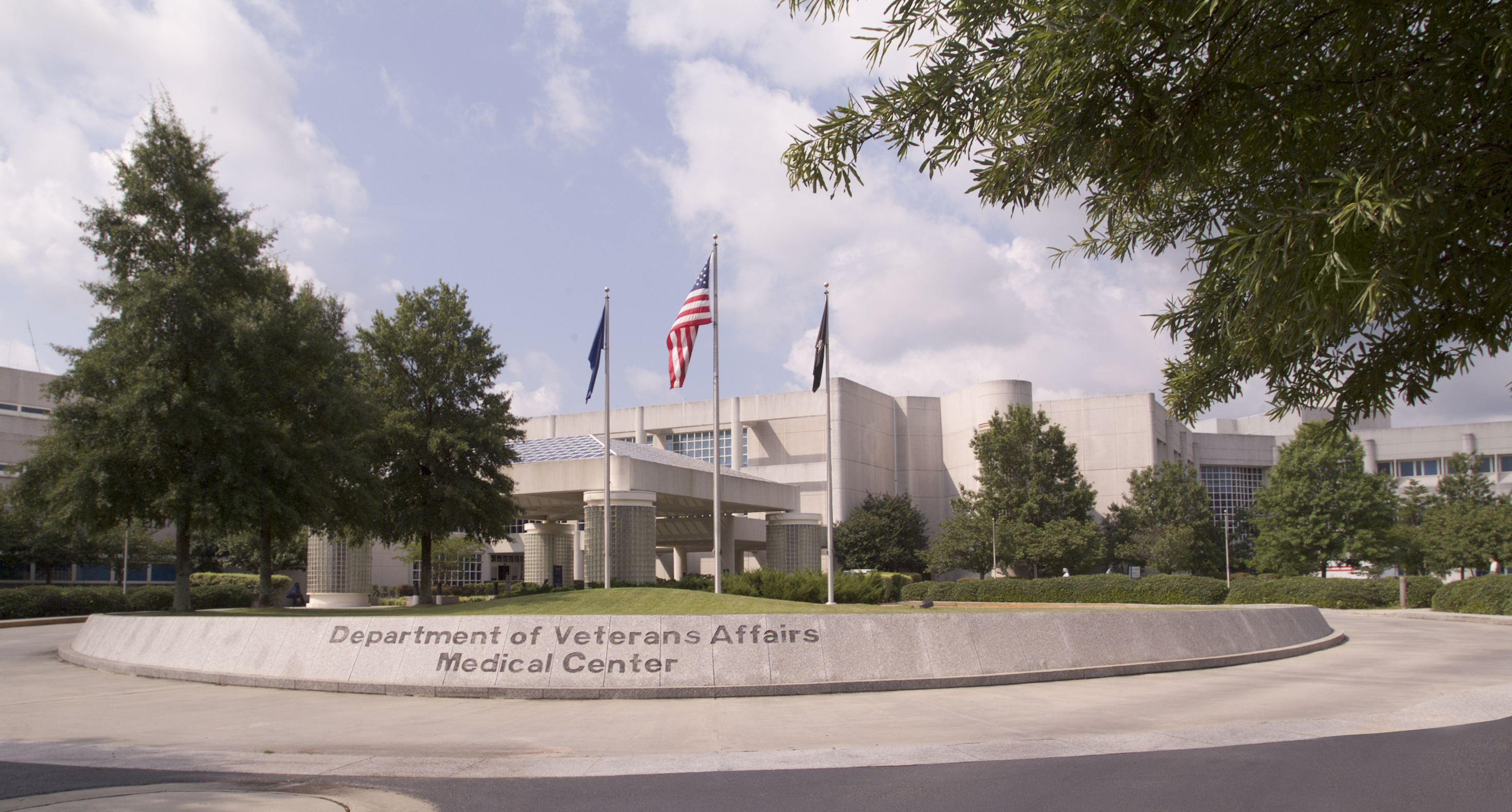 VA Medical Center, Uptown Division, Augusta, Georgia, United States